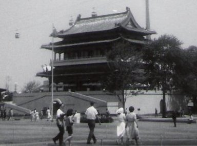 1964 New York World's Fair